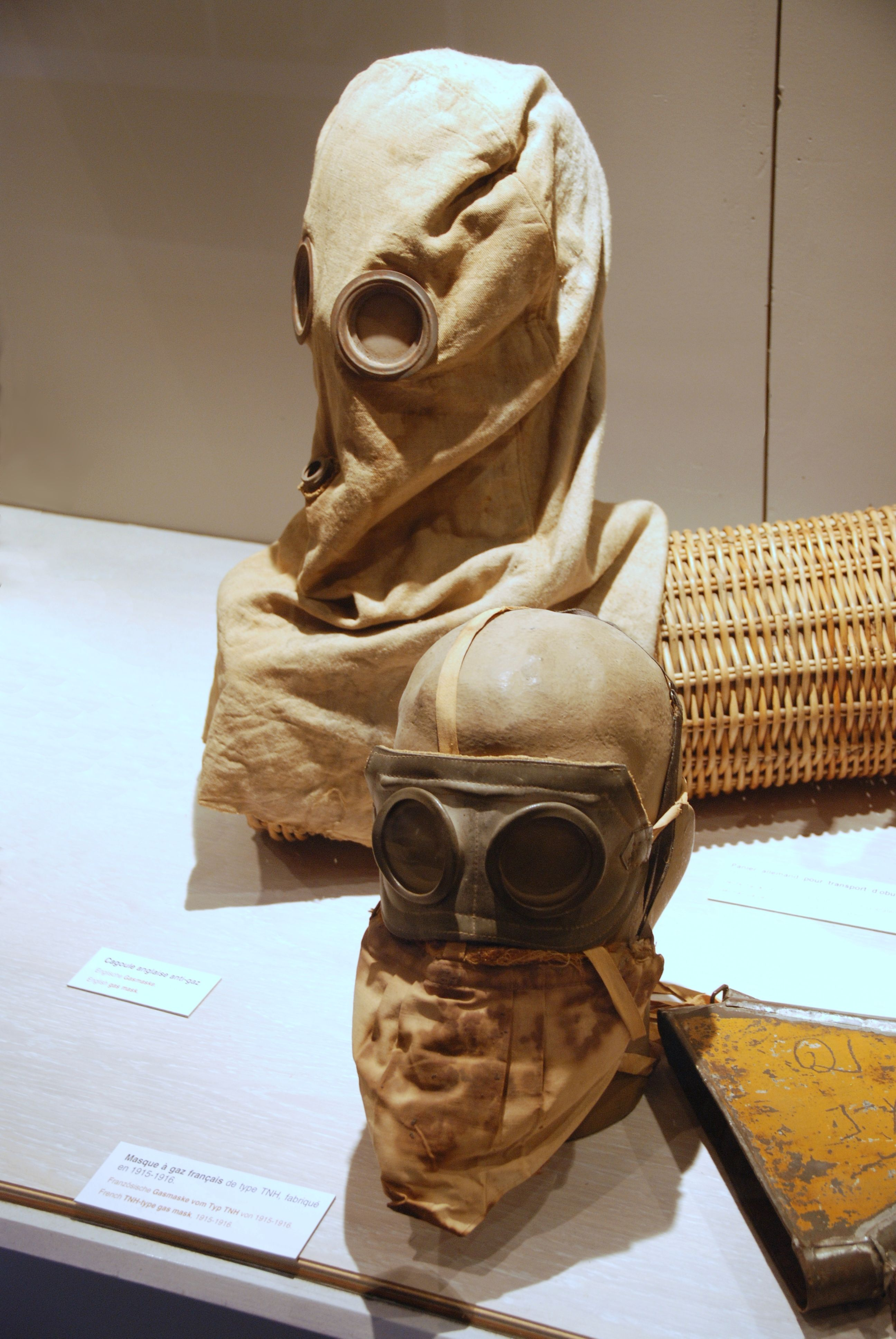 (down) French TNH-type gas mask, made in 1915-16, (top) English gas mask, WWI; the Verdun Memorial, Fleury-devant-Douaumont, France